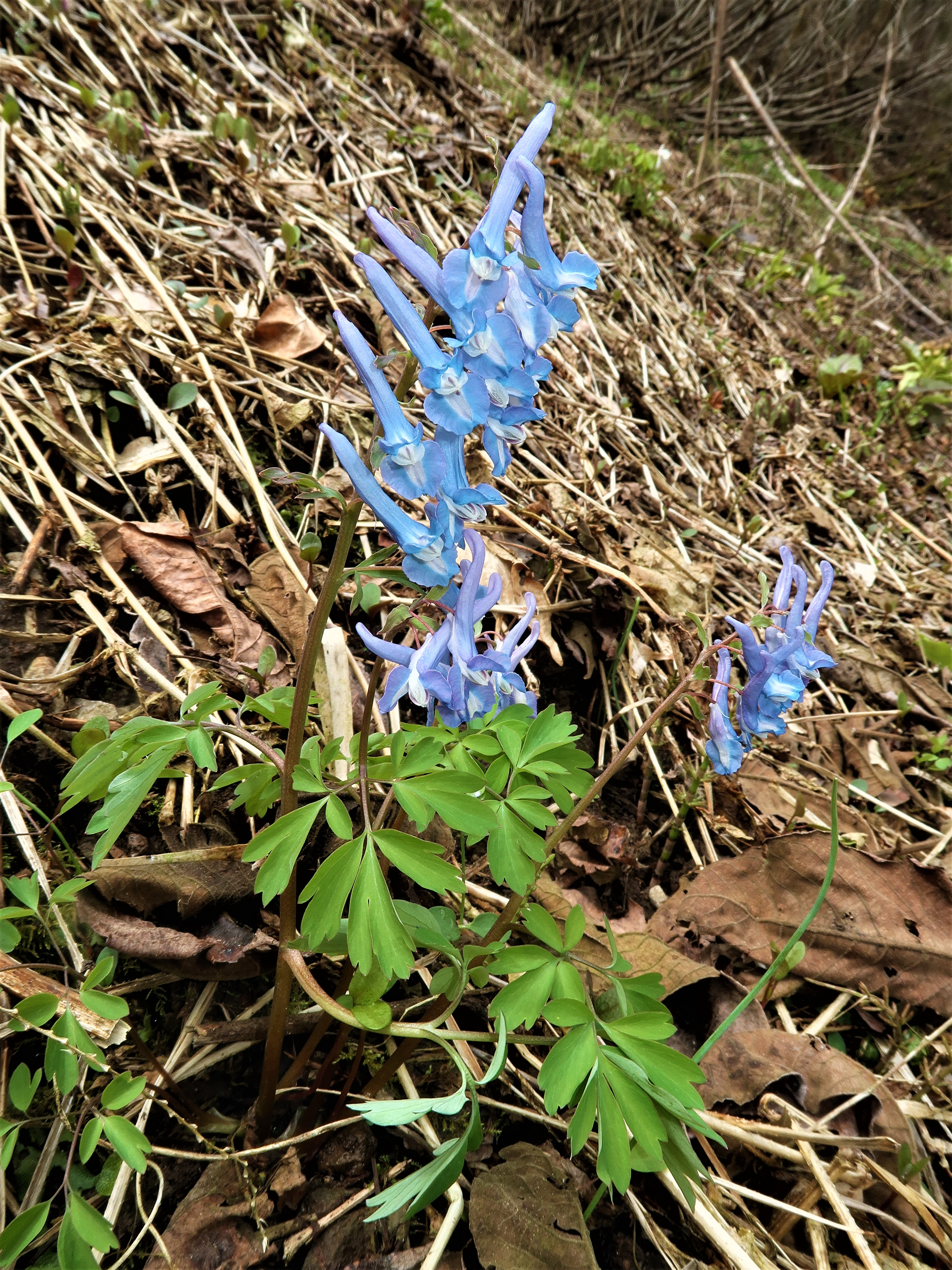 Corydalis fukuharae, Aizu area, Fukushima pref., Japan